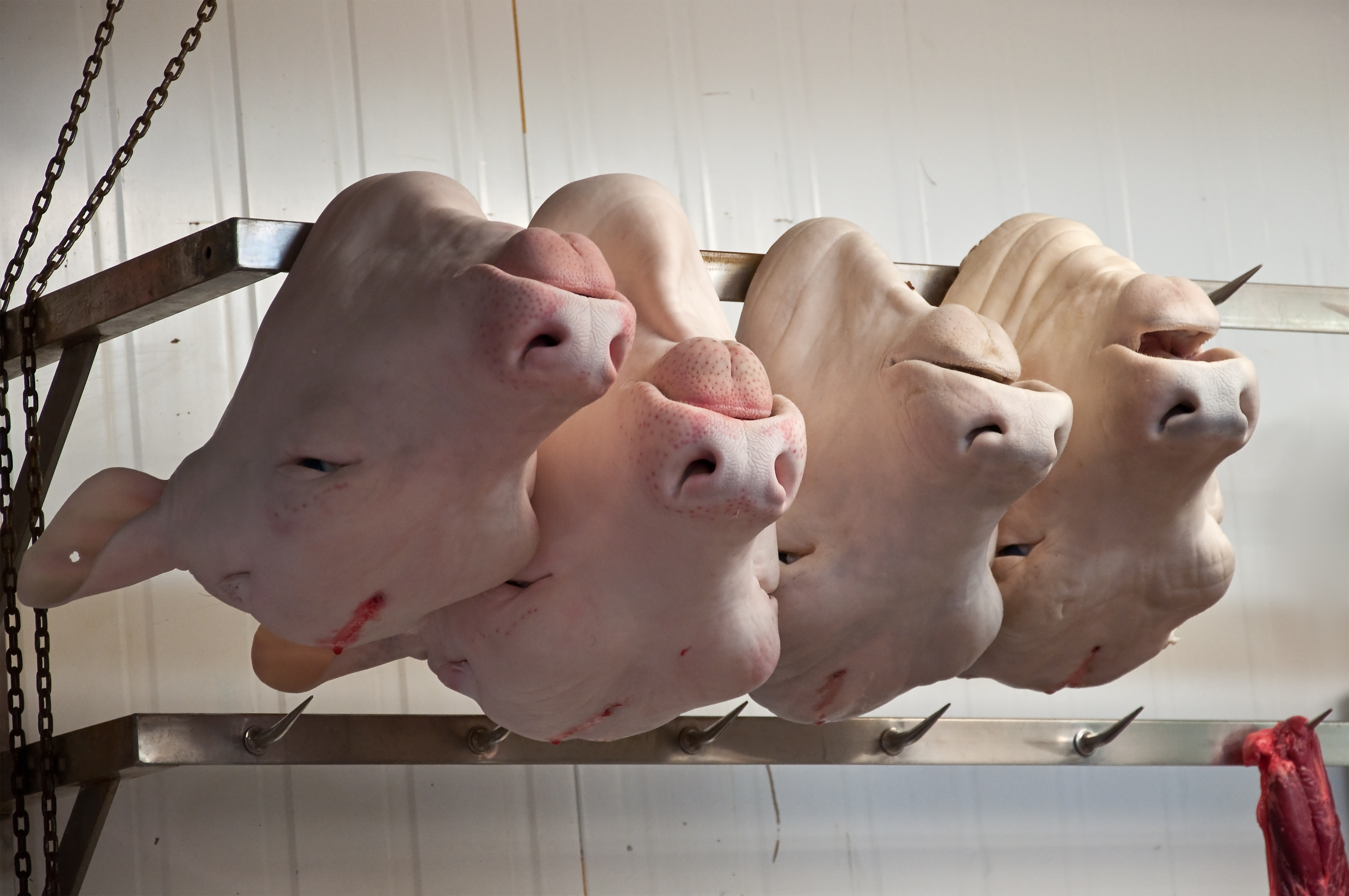 Calves heads, an offal product here on sale in the Rungis International Market, France.